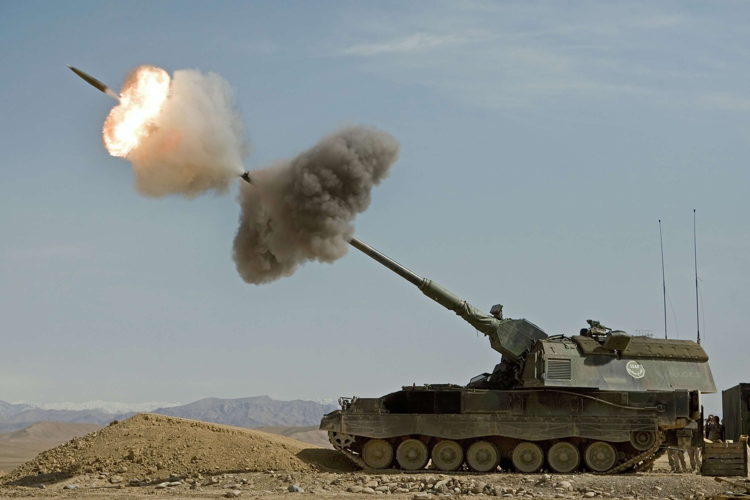 A Dutch Panzerhaubitze 2000 fires a round in Afghanistan.